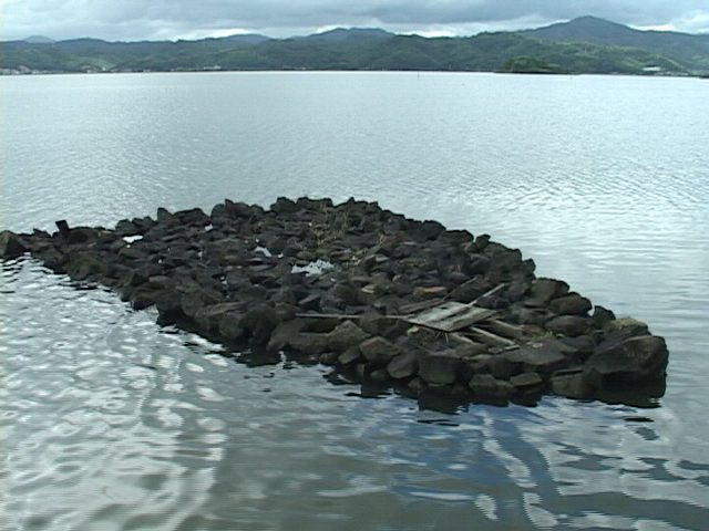 Ishigama,Tottori-city